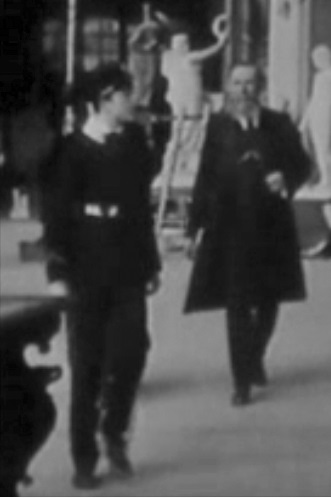 Vittorio De Sica in his first movie, The Clemenceau Affair (Italian: Il processo Clémenceau) by Alfredo De Antoni.